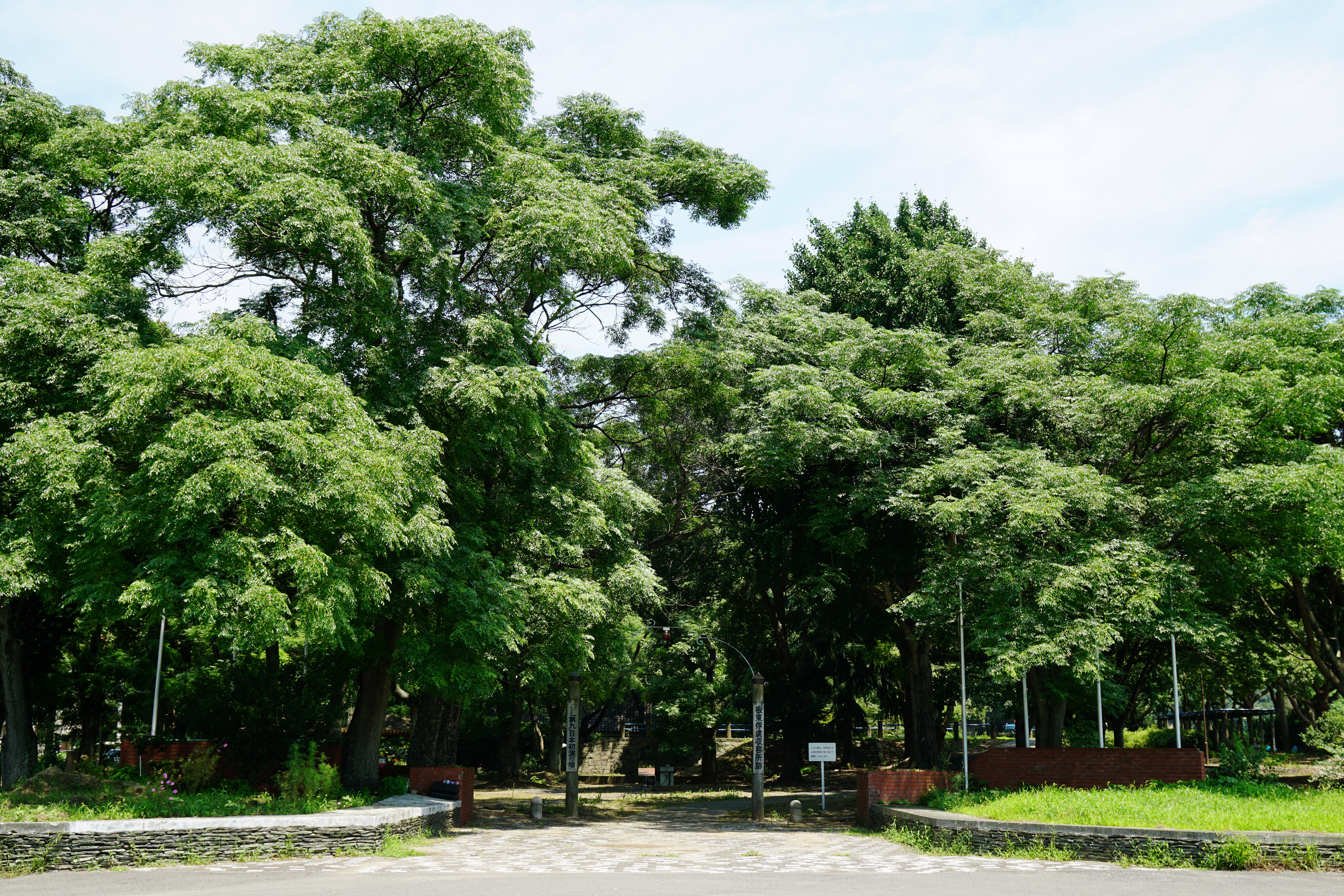 Bandō prisoner-of-war camp ruins in Naruto, Tokushima prefecture, Japan.